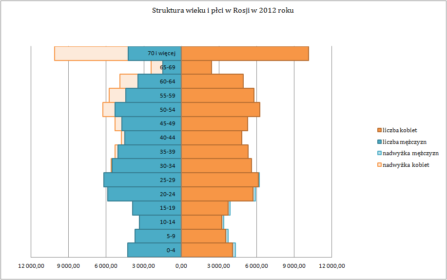 Population pyramid in Russia in 2012